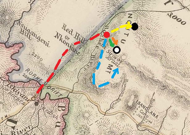 Map showing movements during the Action at Sihayo's kraal Red: British forces advance from Rorke's Drift to camp at Bashee river ahead of atatck Orange: 1/24th during attack Yellow: 2/24th during the attack Green: Natal Native Contingent during attack Blue: Mounted contingent (Natal Volunteers and Natal Mounted Police) during the attack British advance Movement of 1/24th NNC Movement of 1/3rd NNC Initial engagement (white circle) Movement of mounted units Movement of troops to burn Sihayo's Kraal (black circle)